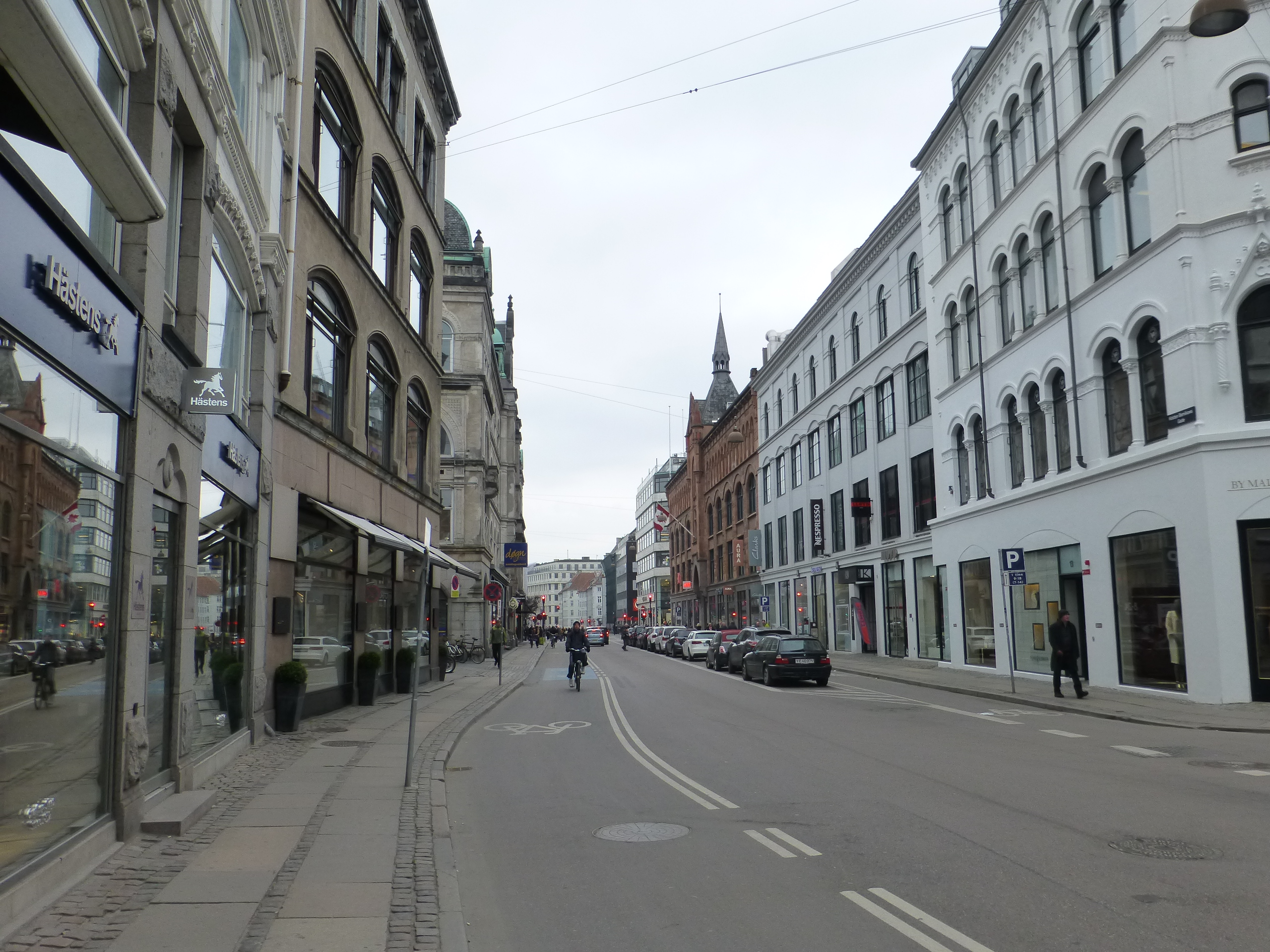 The street Kristen Bernikows Gade in Indre By in Copenhagen.